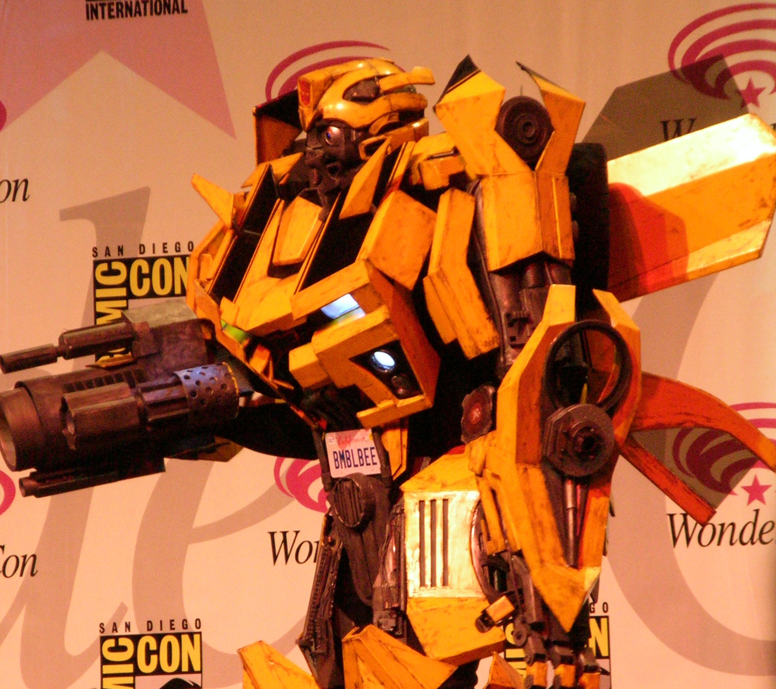 A cosplayers portraying Bumblebee from the live action film versions of Transformers at the WonderCon 2010 Masquerade.